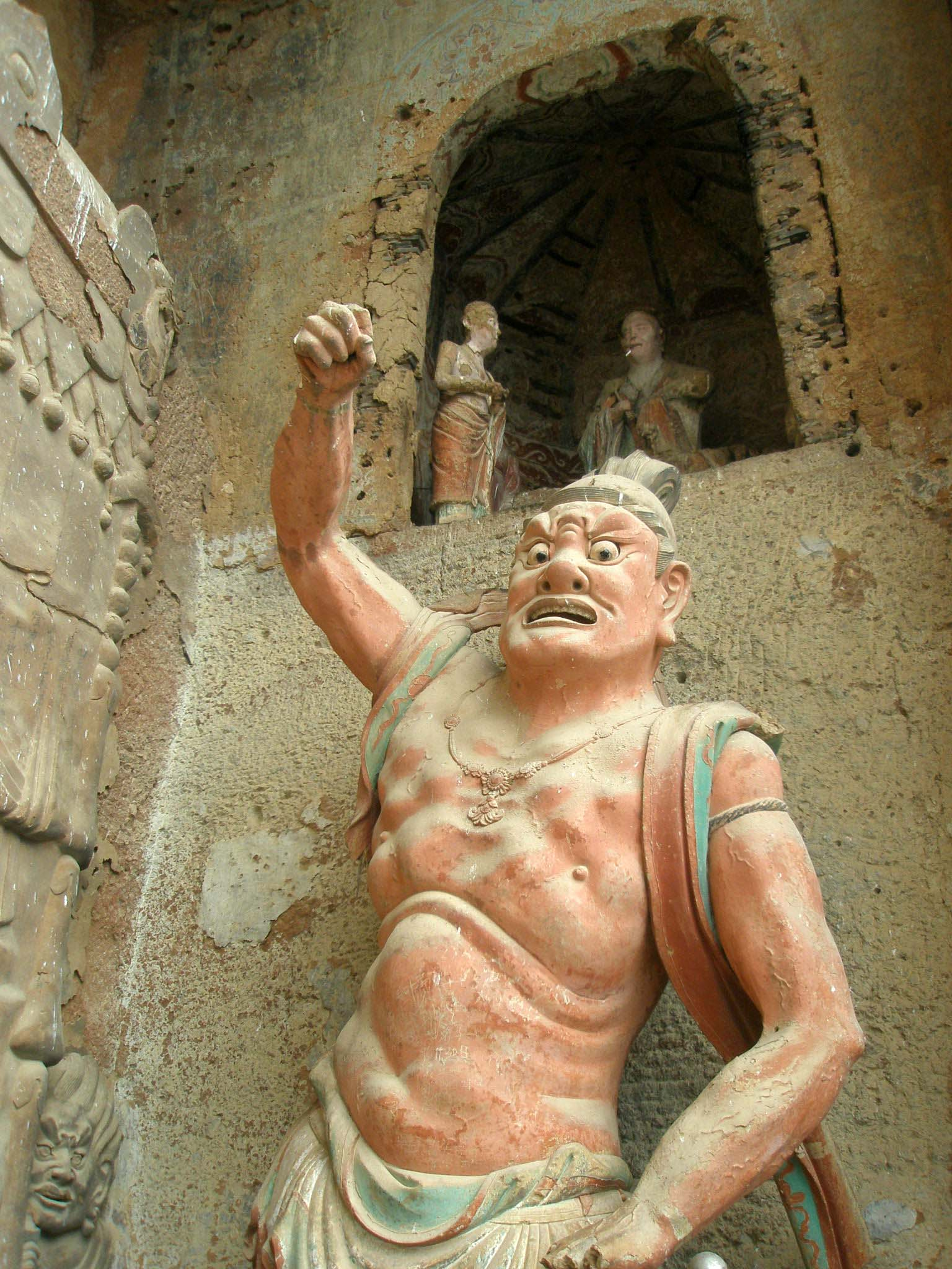 Sculpture on Majishan